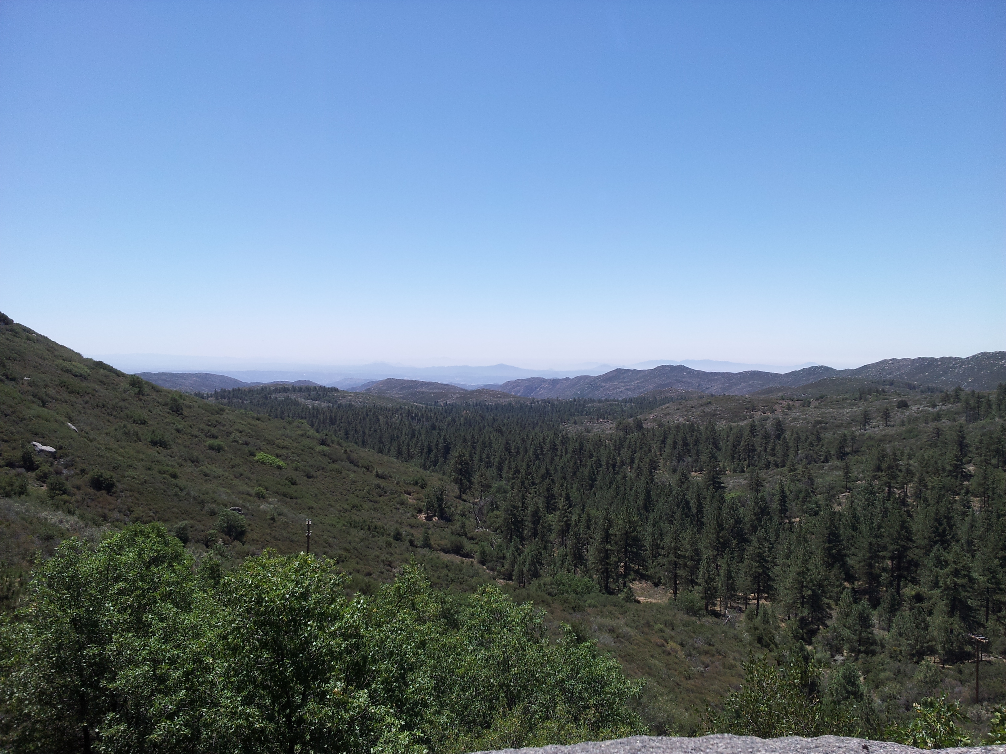 View of Cleveland National Forest from Mount Laguna Other information please do not use for a profit